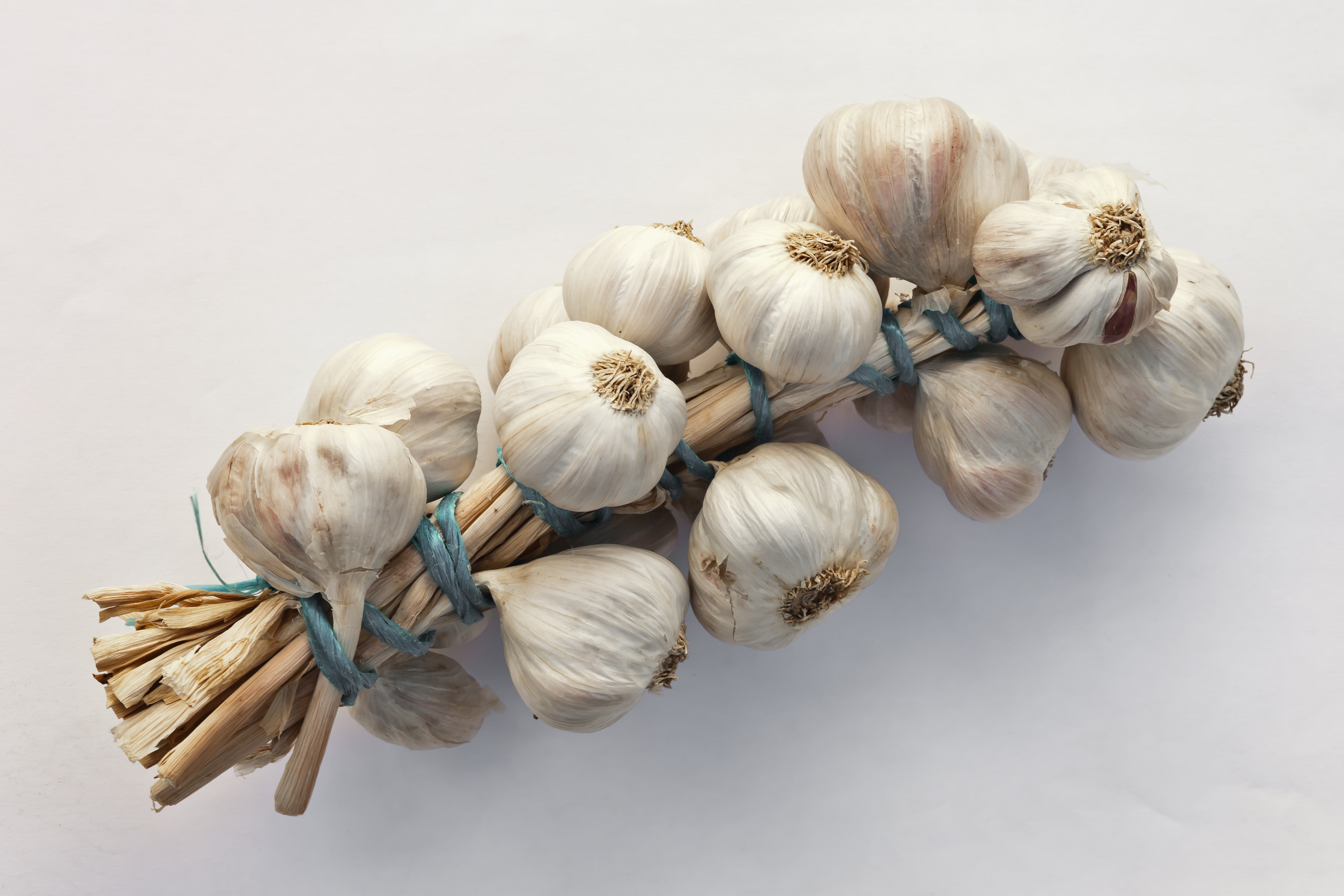 String of garlic, Oroso , Galicia, SpainGalego: Restra de allos de Oroso, Galiza